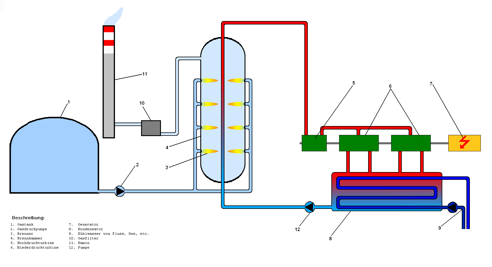 Schematic of an older Gas Power Plant